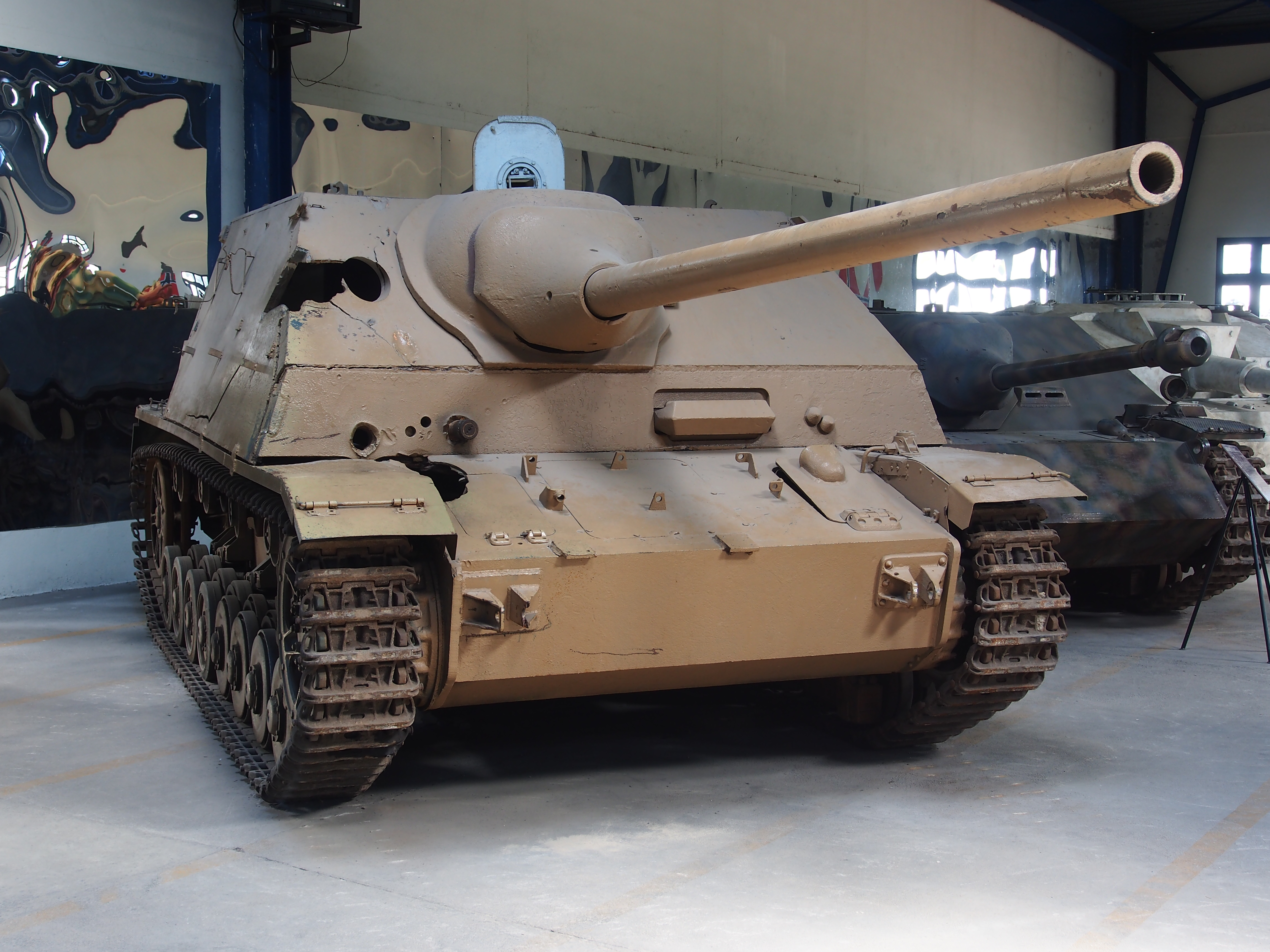 Photographed in the Musée des Blindés, France.